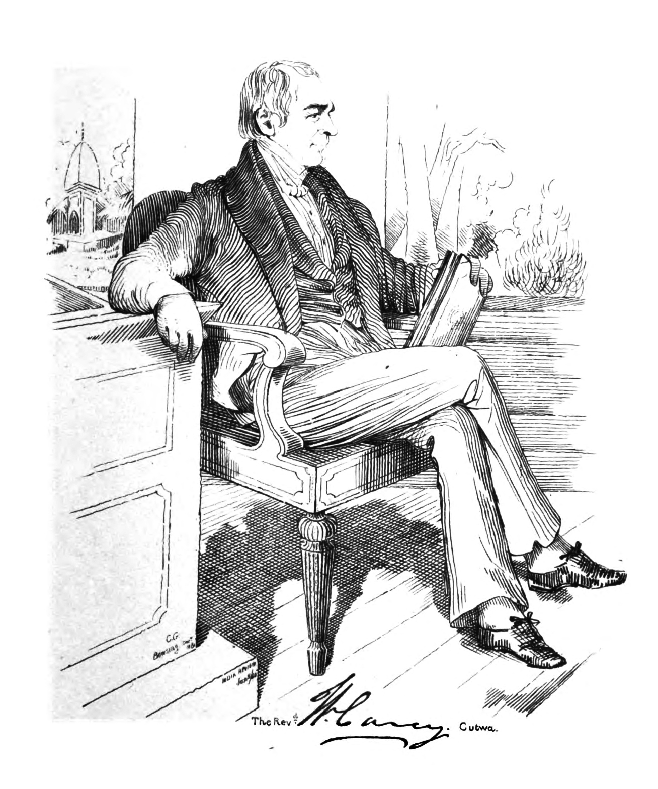 W H Carey of Cutwa